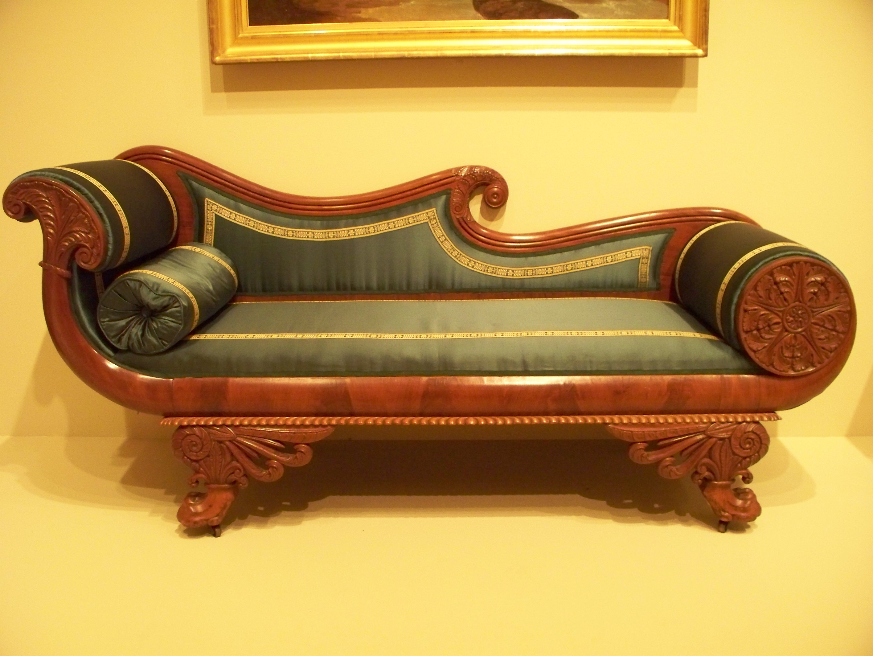 sofa Artist unknown Creation date about 1825-1835 Materials mahogany Dimensions 33 1/4 x 74 x 22 in. Location American Decorative Arts Gallery Credit line Gift of Mr. and Mrs. Norris Chumley in memory of Ruth W. Buskirk Accession number 1986.288 Wikipedia Loves Art at the Indianapolis Museum of Art This photo of item # 1986.288 at the Indianapolis Museum of Art was contributed under the team name "Opal_Art_Seekers_4" as part of the Wikipedia Loves Art project in February 2009. Indianapolis Museum of Art The original photograph on Flickr was taken by Forever Wiser—please add a comment to the original Flickr page whenever a use has been made on Wikipedia or another project. Project galleries on Flickr: this institution, this team